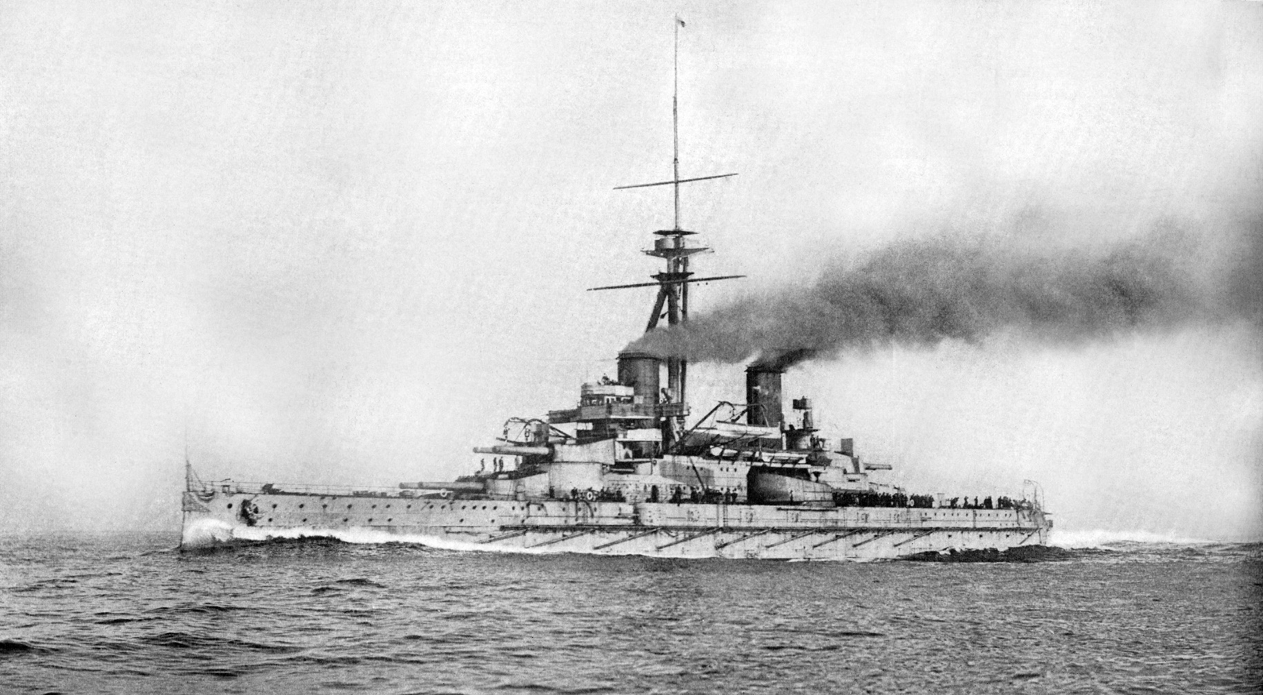 Minas Gerais sailing soon after her commissioning. Photo was taken too early to be of Sao Paulo, which is a common identification in sources.[1]